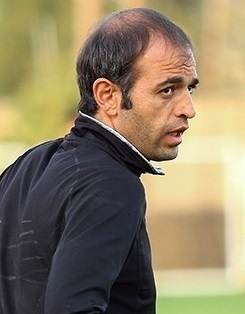 Moharram Navidkia